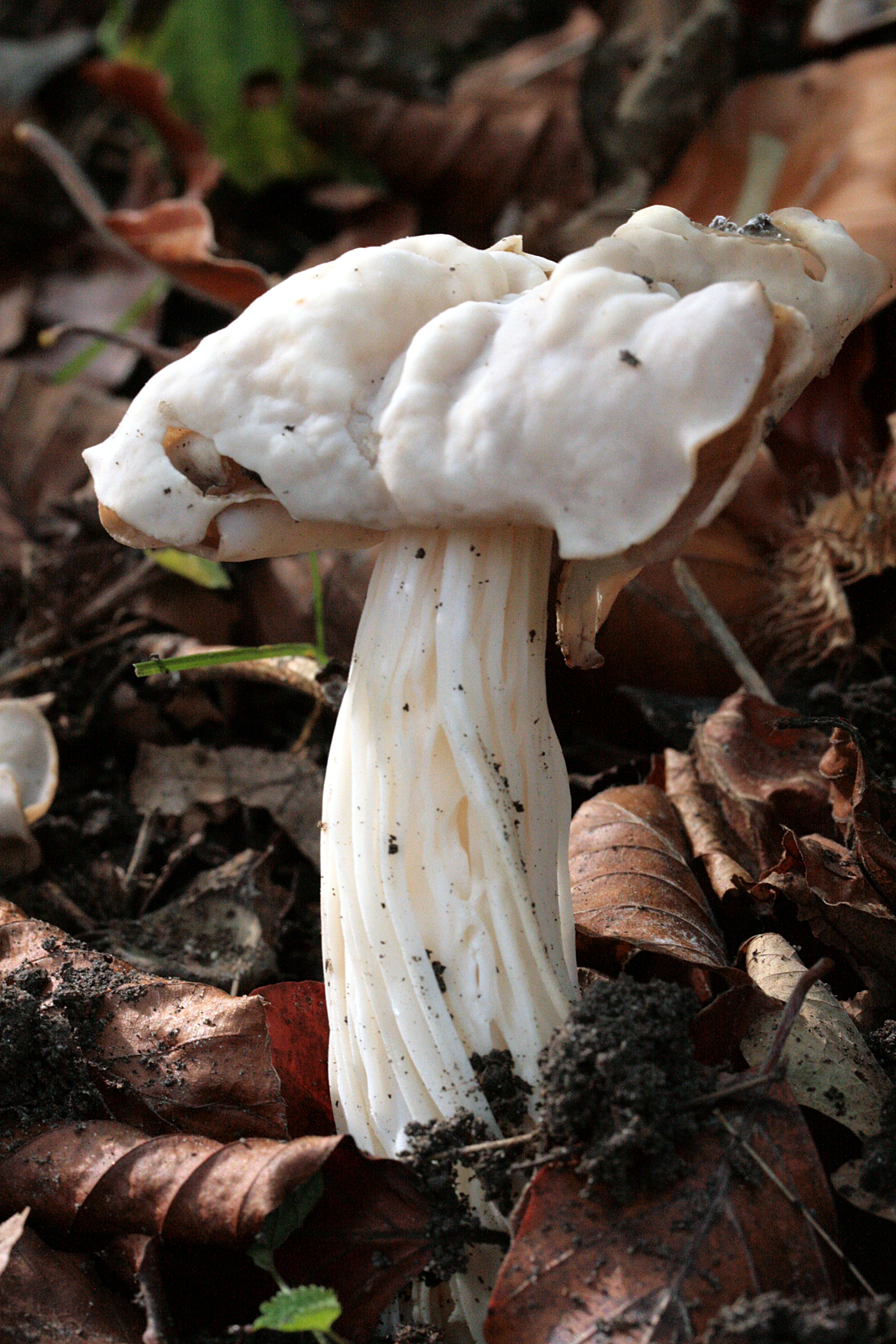 white saddle, elfin saddle or common helvel - Alongside of a pathway - beeches and oaks forest in Havré (Mons), Belgium.